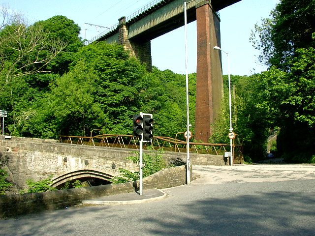 Broadbottom Bridges. River meets rail and road. Manchester-Glossop rail line and Broadbottom-Charlesworth road cross the River Etherow.